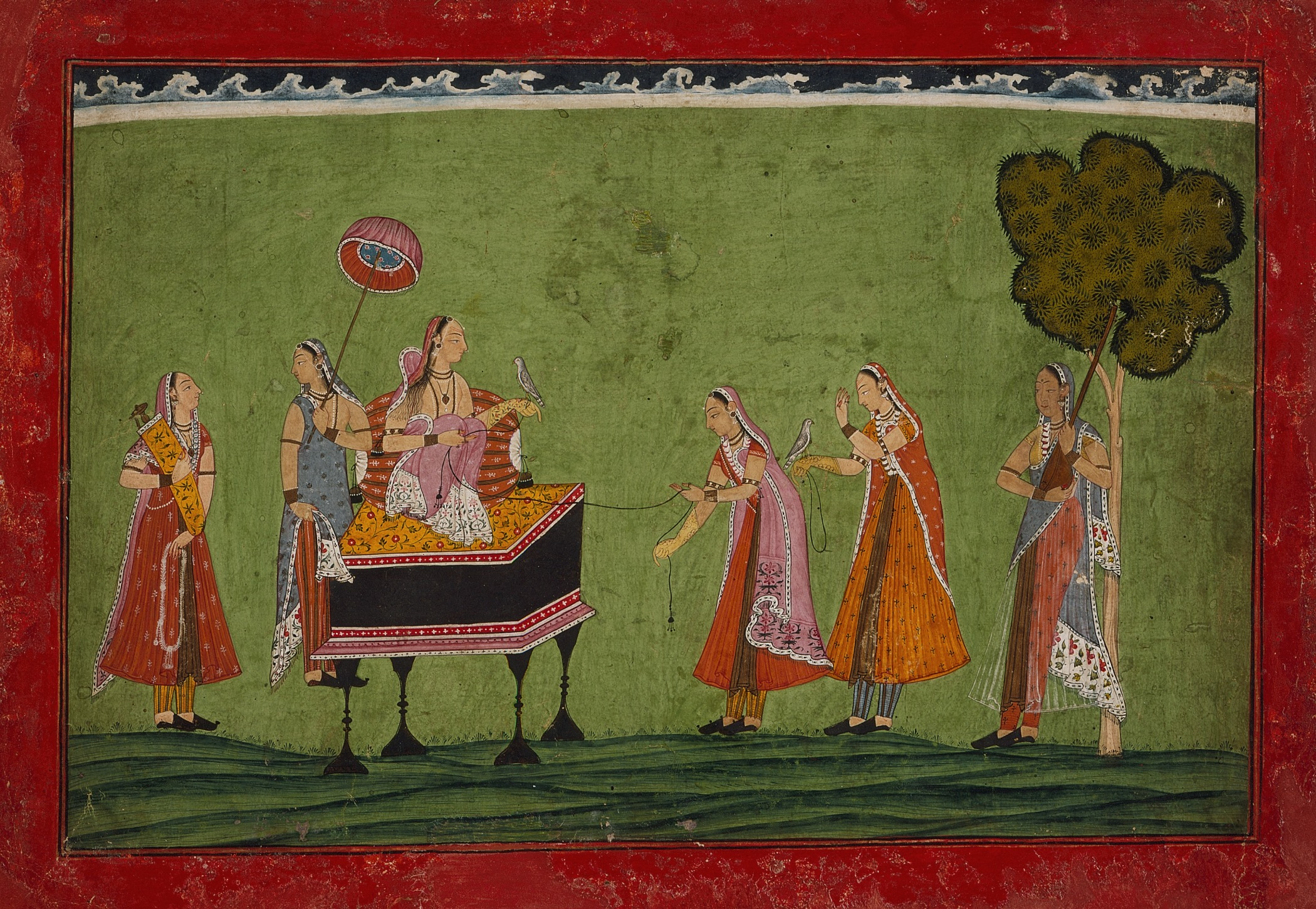 Himachal Pradesh India, Himachal Pradesh, Chamba, circa 1730-1740 Drawings; watercolors Opaque watercolor, gold, and ink on paper From the Nasli and Alice Heeramaneck Collection, Museum Associates Purchase (M.76.2.36) South and Southeast Asian Art